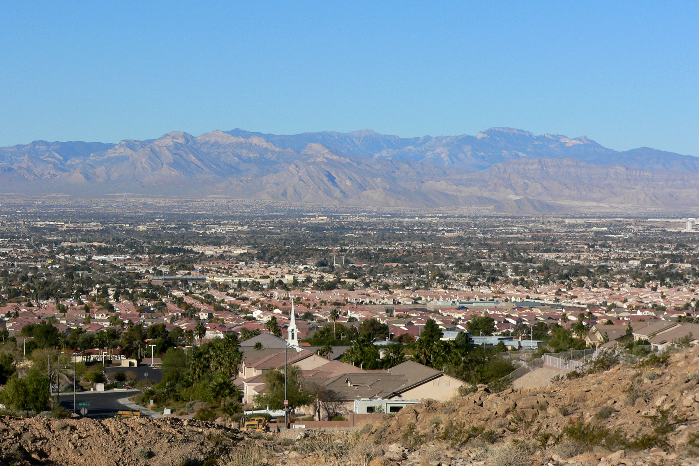 Las Vegas seen from the summit of Frenchman Mountain, southern Nevada